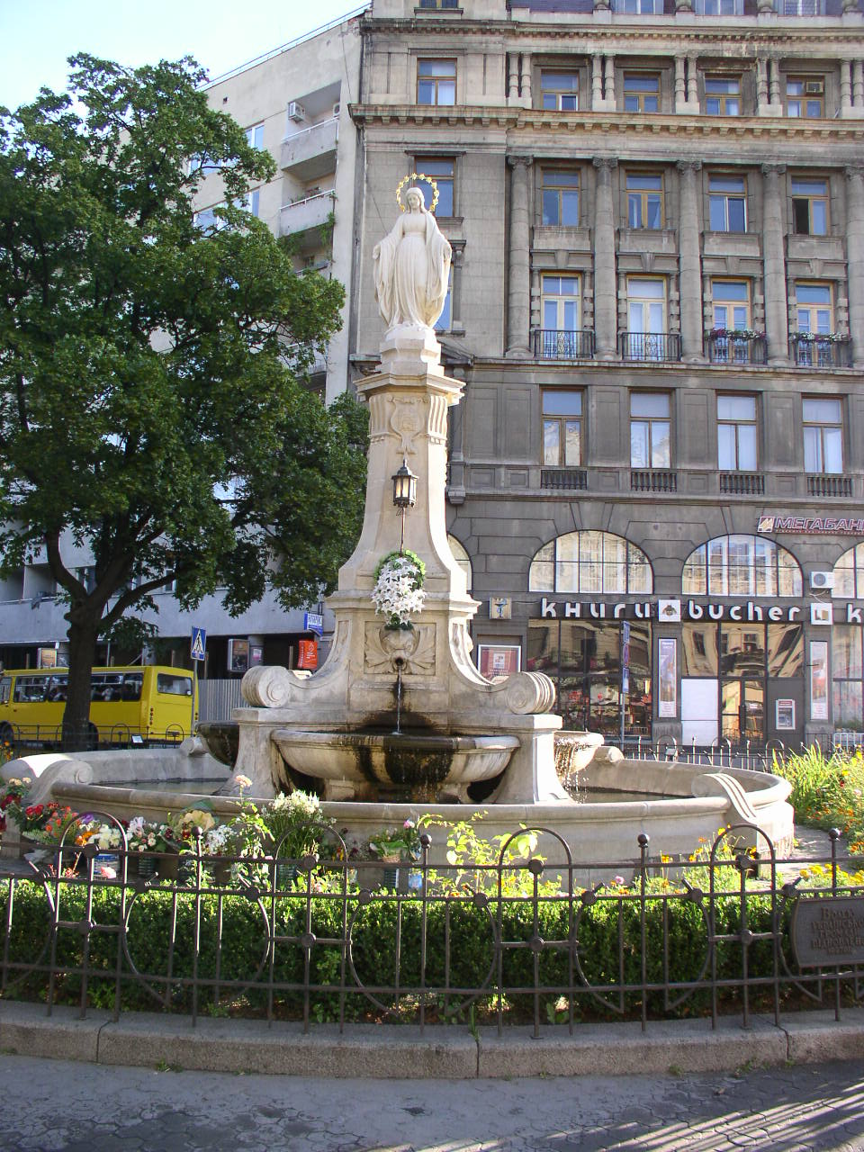 Mickiewicz Square, Lviv, Ukraine.